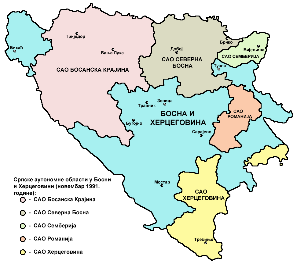 Serbian autonomous oblasts in Bosnia and Herzegovina (November 1991).